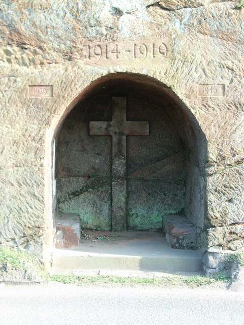 War Memorial An unusual war memorial, carved out of the cliff face, providing seats to look at the list of the fallen on the walls inside.